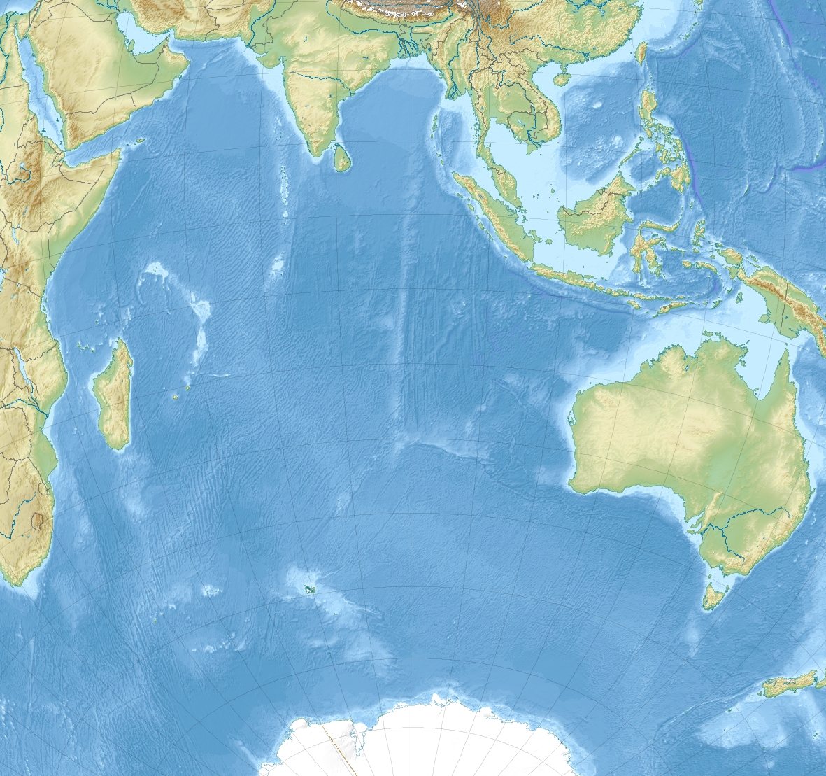 Relief location map of Indian Ocean. Projection: Lambert azimuthal equal-area projection. Area of interest: N: 30.0° N S: -70.0° N W: 30.0° E E: 150.0° E Projection center: NS: -20.0° N WE: 90.0° E GMT projection: -JA90.0/-20.0/180/19.998266666666666c GMT region: -R-12.856058461183775/-43.848273739920856/151.50519408595028/33.22162400070504r GMT region for grdcut: -R-13.0/-78.0/193.0/34.0r Relief: SRTM30plus. Made with Natural Earth. Free vector and raster map data @ .